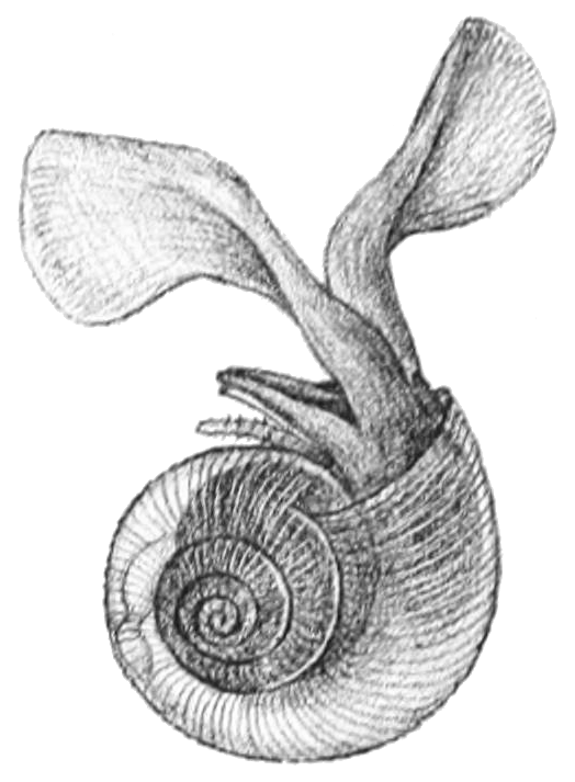 Drawing of left lateral view of Limacina helicina.